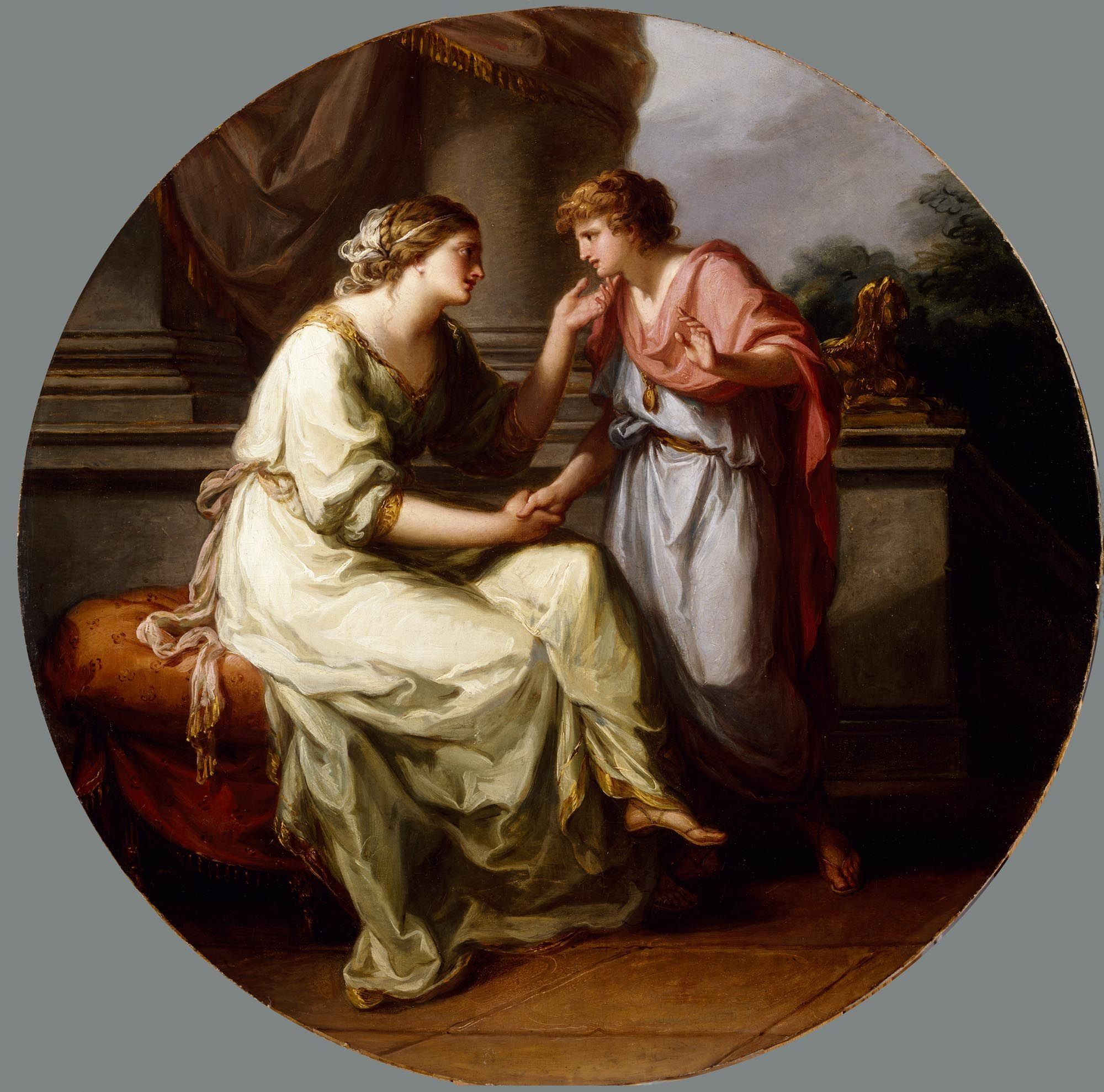 Papirius Praetextatus Entreated by his Mother to Disclose the Secrets of the Deliberations of the Roman Senate.